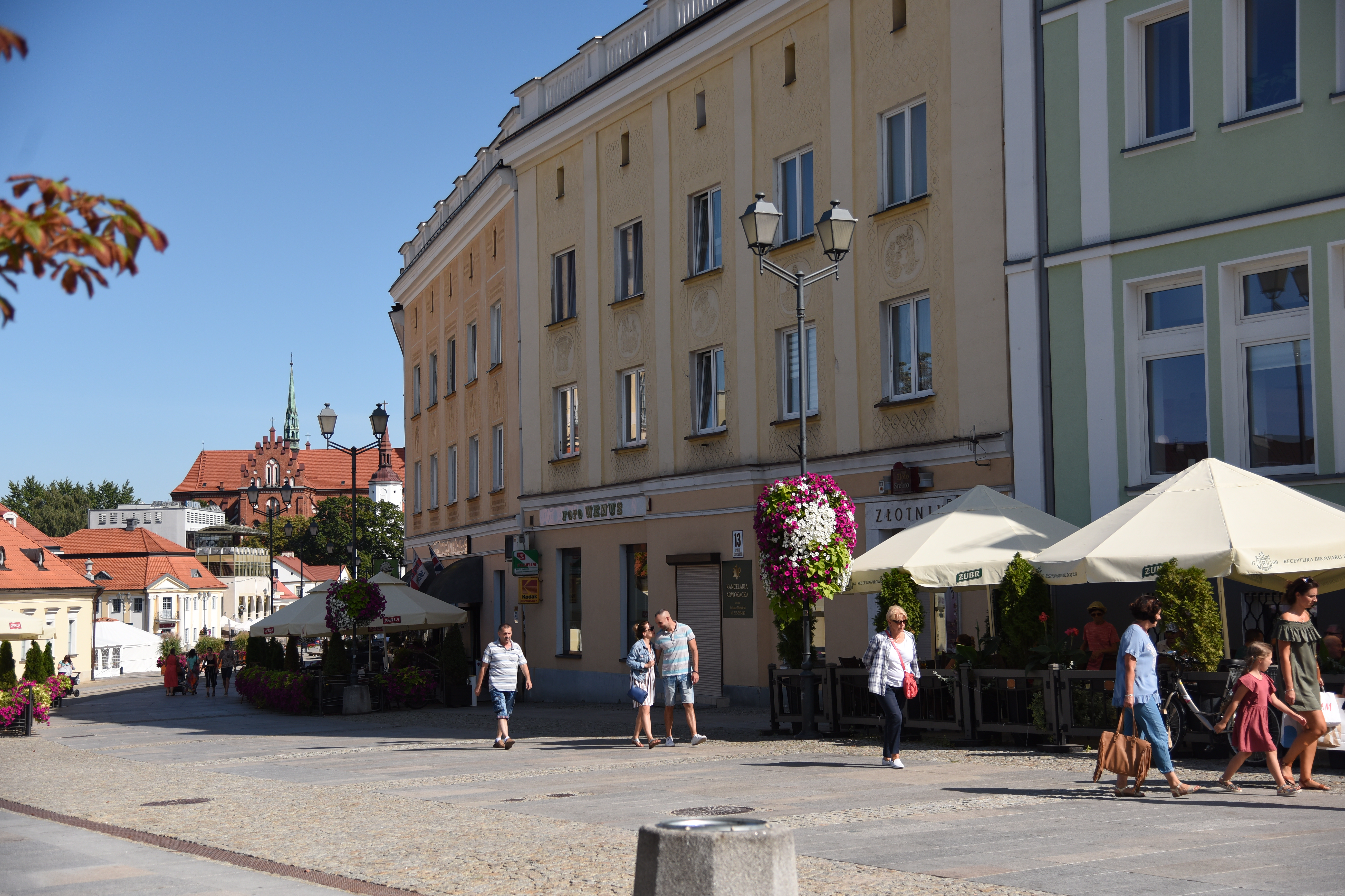 Bialystok, August 2019